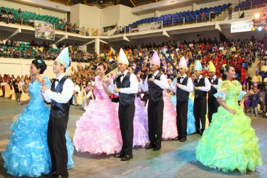 berasal dari sangihe